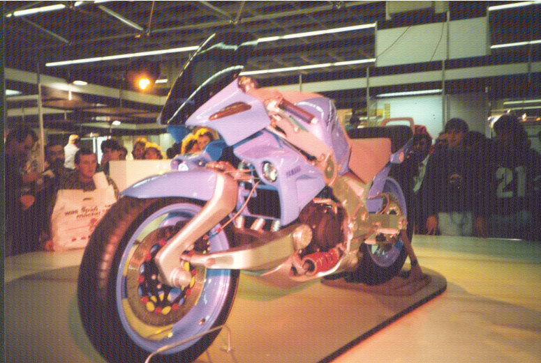 Concept bike Yamaha Morpho 1990